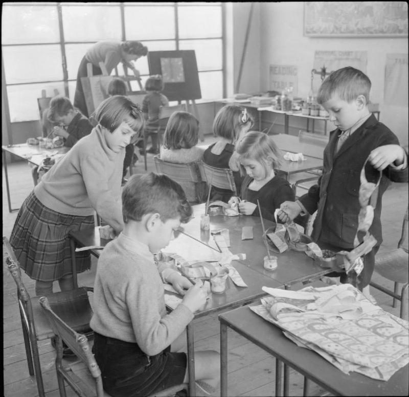 A Modern Village School- Education in Cambridgeshire, England, UK, 1944 A group of young children at Fen Ditton Junior School design and make their own Christmas decorations. One boy is making a paper chain. Behind them in the classroom can be seen other children hard at work. In the background, the teacher is helping one of the pupils with their painting.